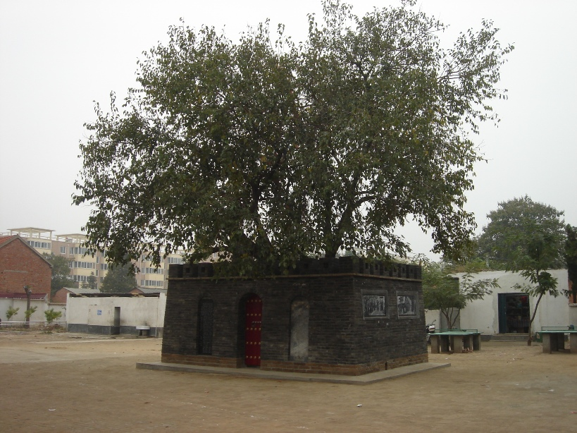 Hansang Cheng is the smallest "castle" in the world, located in Xinye County, Henan Province, China. It is said that the "castle" was constructed about 1800 years ago in last period of the East Han Dynasty. This photo was taken by Eniss with Sony Cyber-shot T-5. The orginal size is 2048*1536.